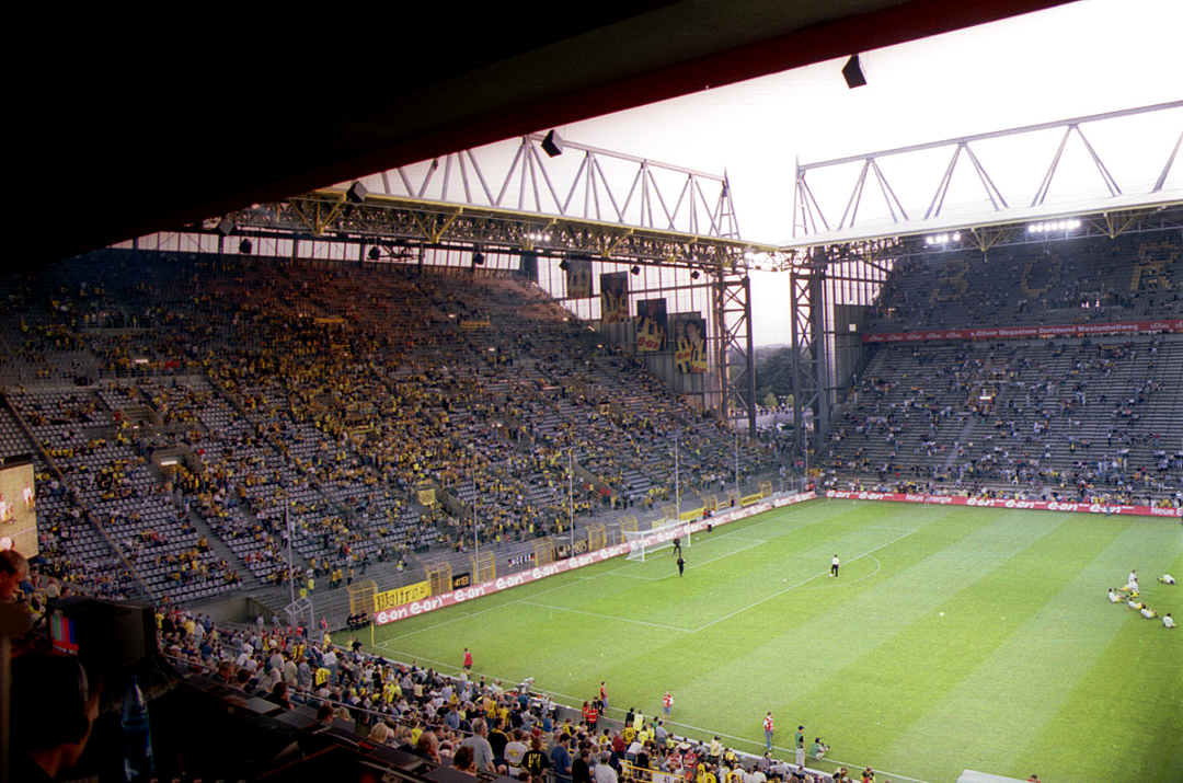 Westfalenstadion in Dortmund, North Rhine-Westphalia, Germany, 2001